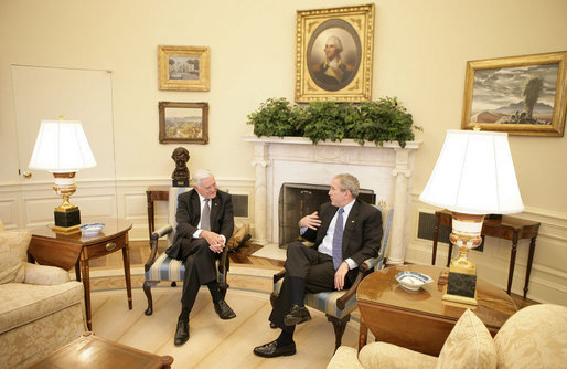 President George W. Bush and President Valdas Adamkus of Lithuania meet Monday, Feb. 12, 2007, in the Oval Office of the White House.